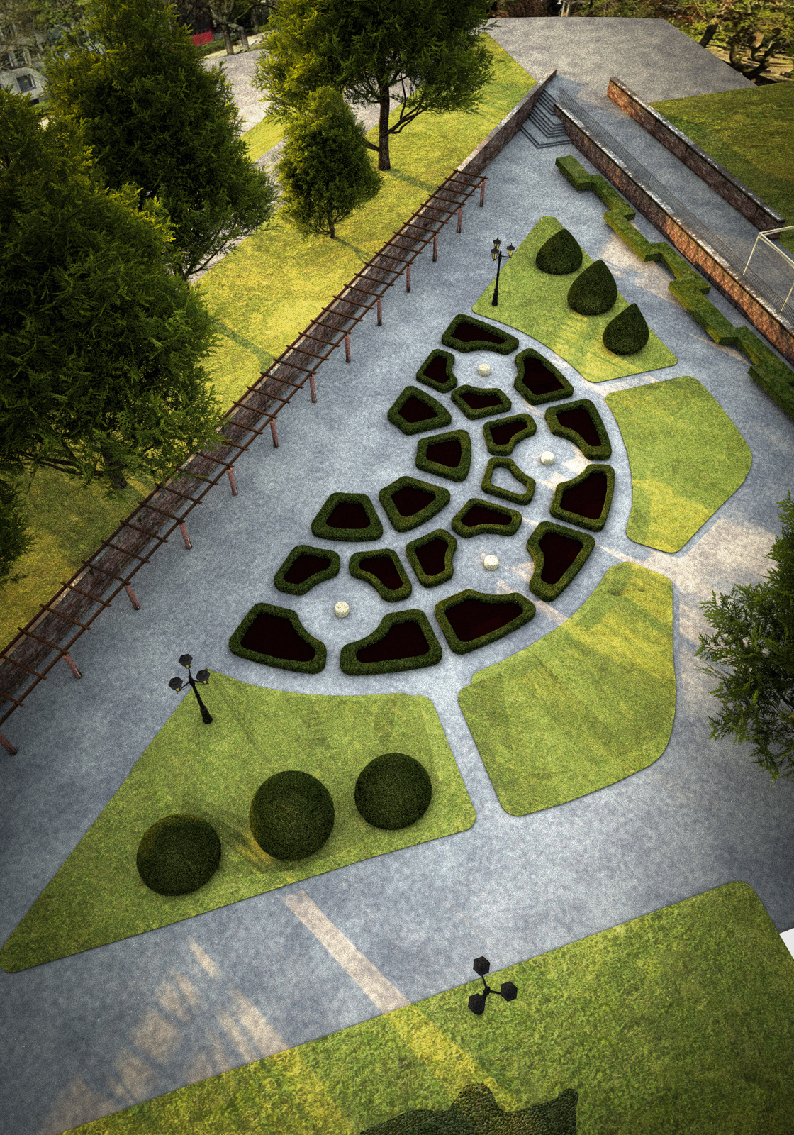 saasfee*pavillon, Frankfurt am Main